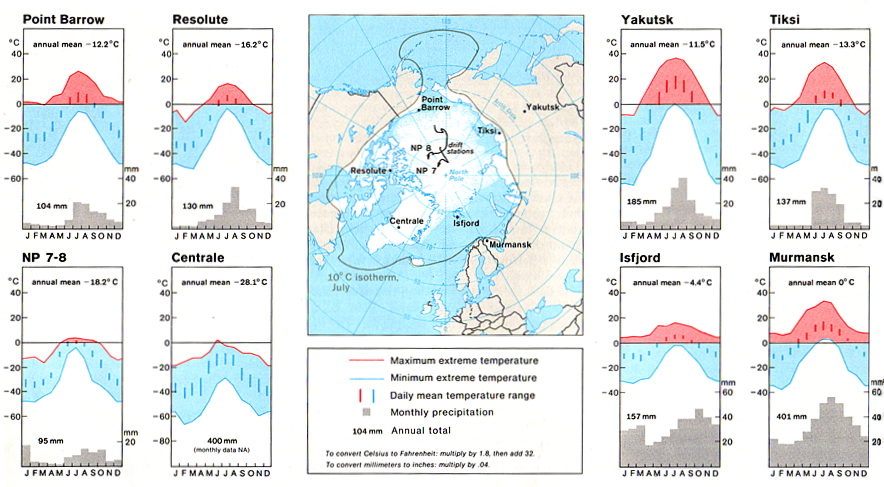 Monthly and annual temperature and precipitation climatologies at eight Arctic and sub-Arctic stations. The red and blue vertical bars extend from the daily-average low to the daily-average high for each month; the red line shows the maximum temperature recorded each month, and the blue line shows the minimum temperature recorded each month; the gray bars show the monthly-average precipitation (liquid equivalent, millimeters); the text gives the annual-average temperature and precipitation. The figure was made in the mid 1970s, so including data since then might change it some, but it gives a good idea of the climate in these regions. The map shows the location of the seven land stations and the tracks of the two Soviet drifting stations from which data were combined to make the lower-left plot.